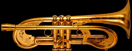 Flumpet